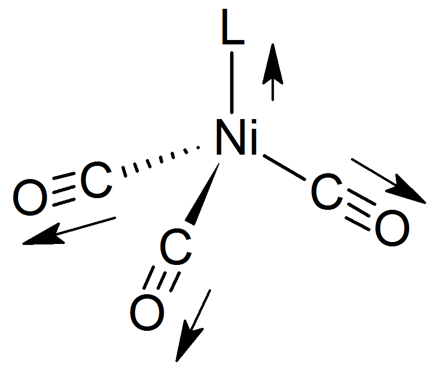 A1 stretch of Ni(CO)3L used to determine the Tolman electronic parameter